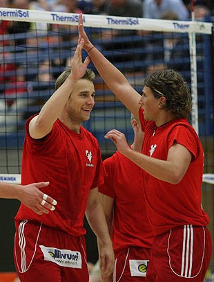 Finland volleyball brothers Kaius and Markus Peltonen